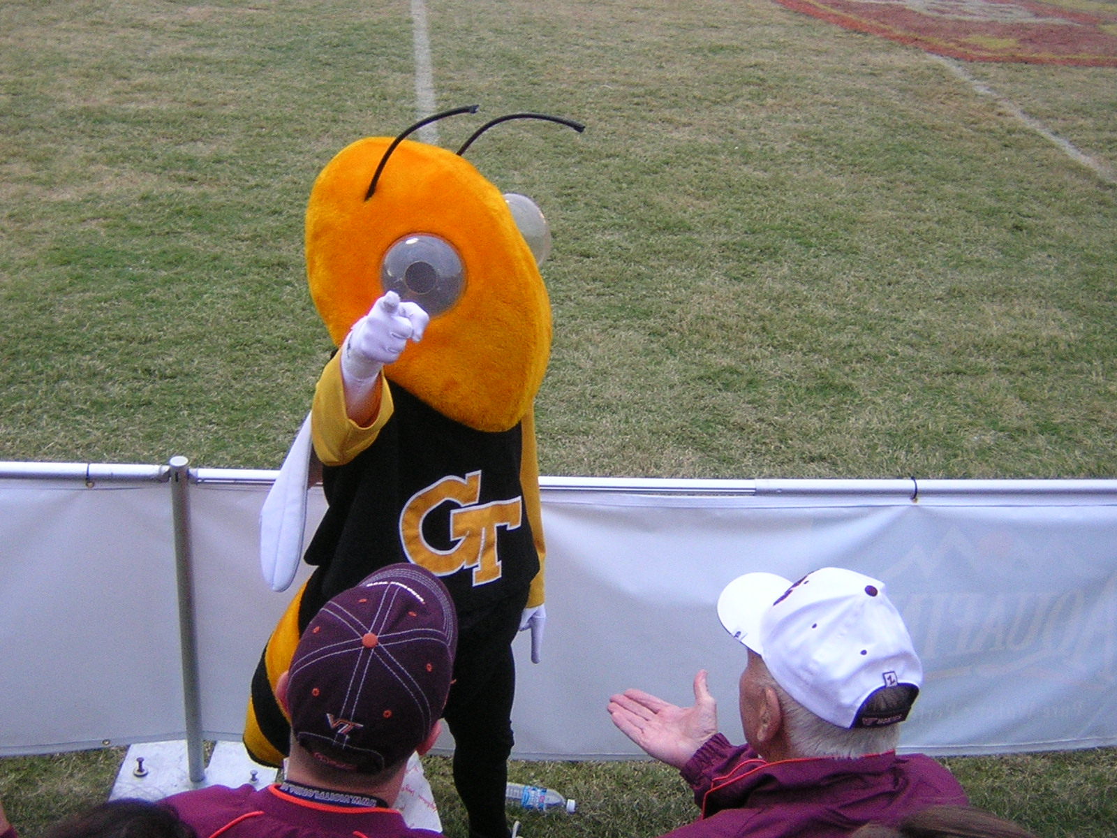 Georgia Tech's mascot (Buzz) visits with Virginia Tech Hokies football fans before the inaugural ACC championship game in 2005.